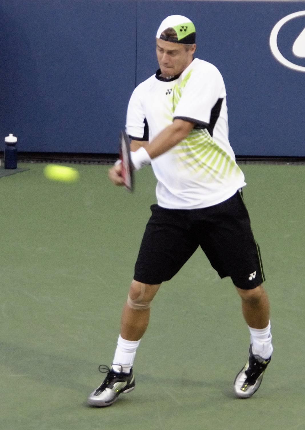 Lleyton Hewitt at the 2009 US Open